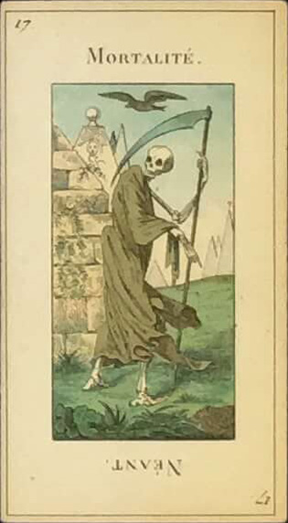 Death card (La Mort) from Etteilla's 1890 tarot deck